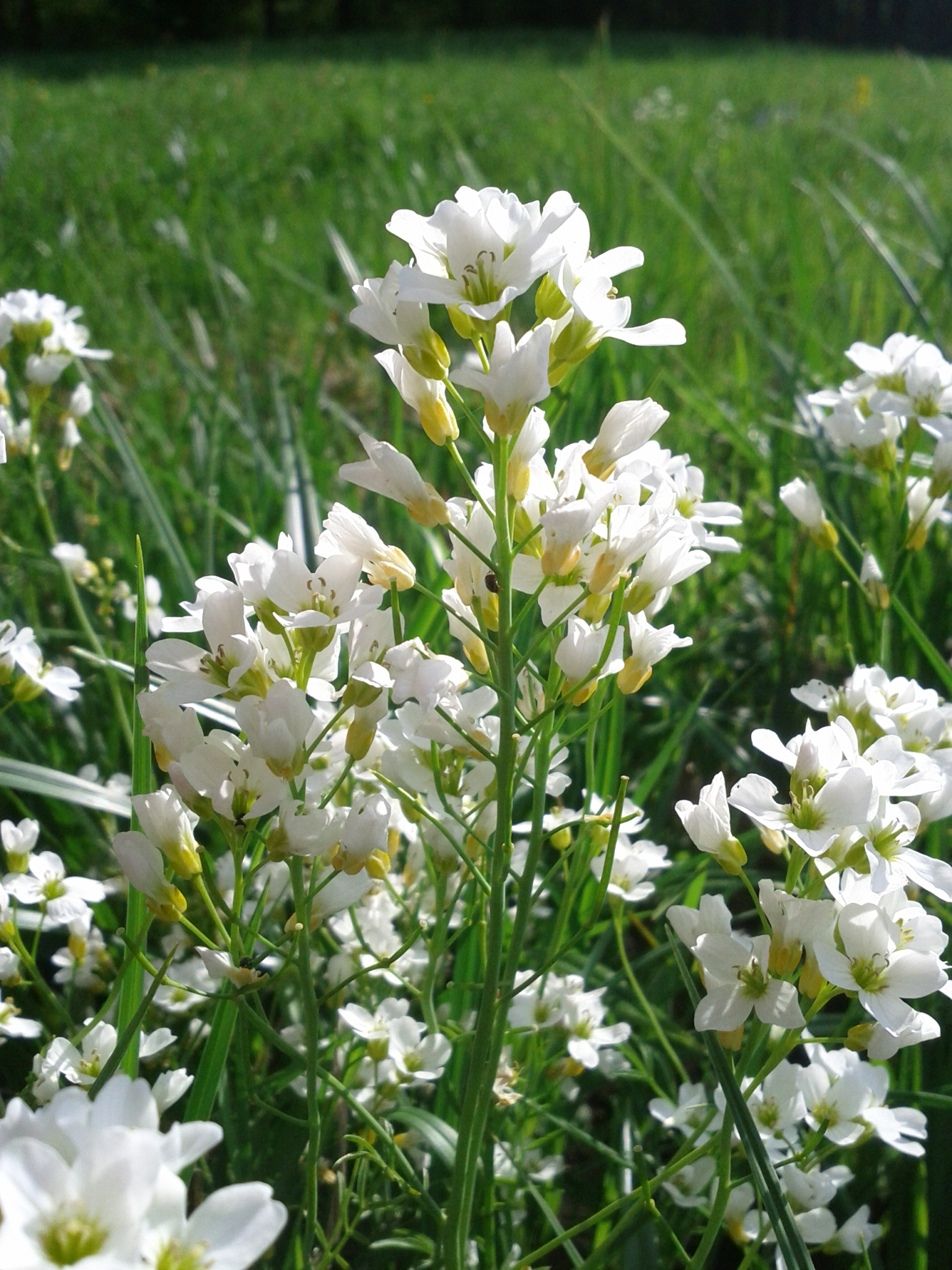 Habitus Taxon: Cardamine pratensis agg. (cf. C. matthioli s. str.) (sensu Fischer et al. EfÖLS 2008 ISBN 978-3-85474-187-9) Location: Rohrwald, district Korneuburg, Lower Austria - ca. 250 m a.s.l. Habitat: wet meadows